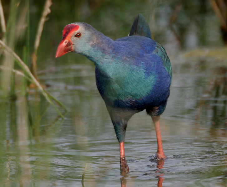 Purple Swamphen Porphyrio porphyrio at/ near Hodal, Faridabad, Haryana, India.